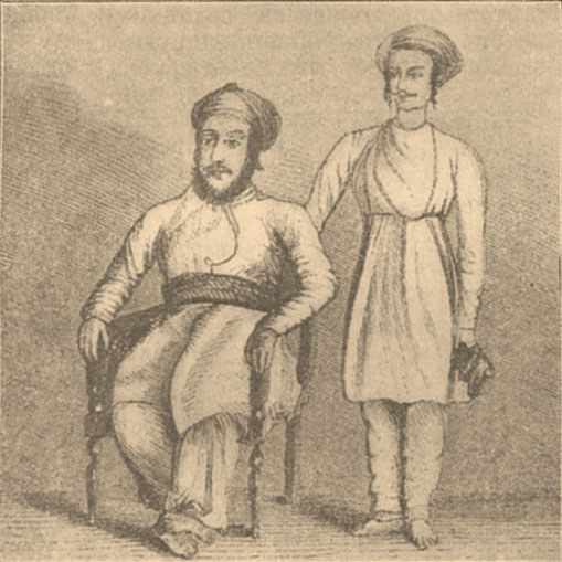 Illustration from Brockhaus and Efron Jewish Encyclopedia (1906—1913)